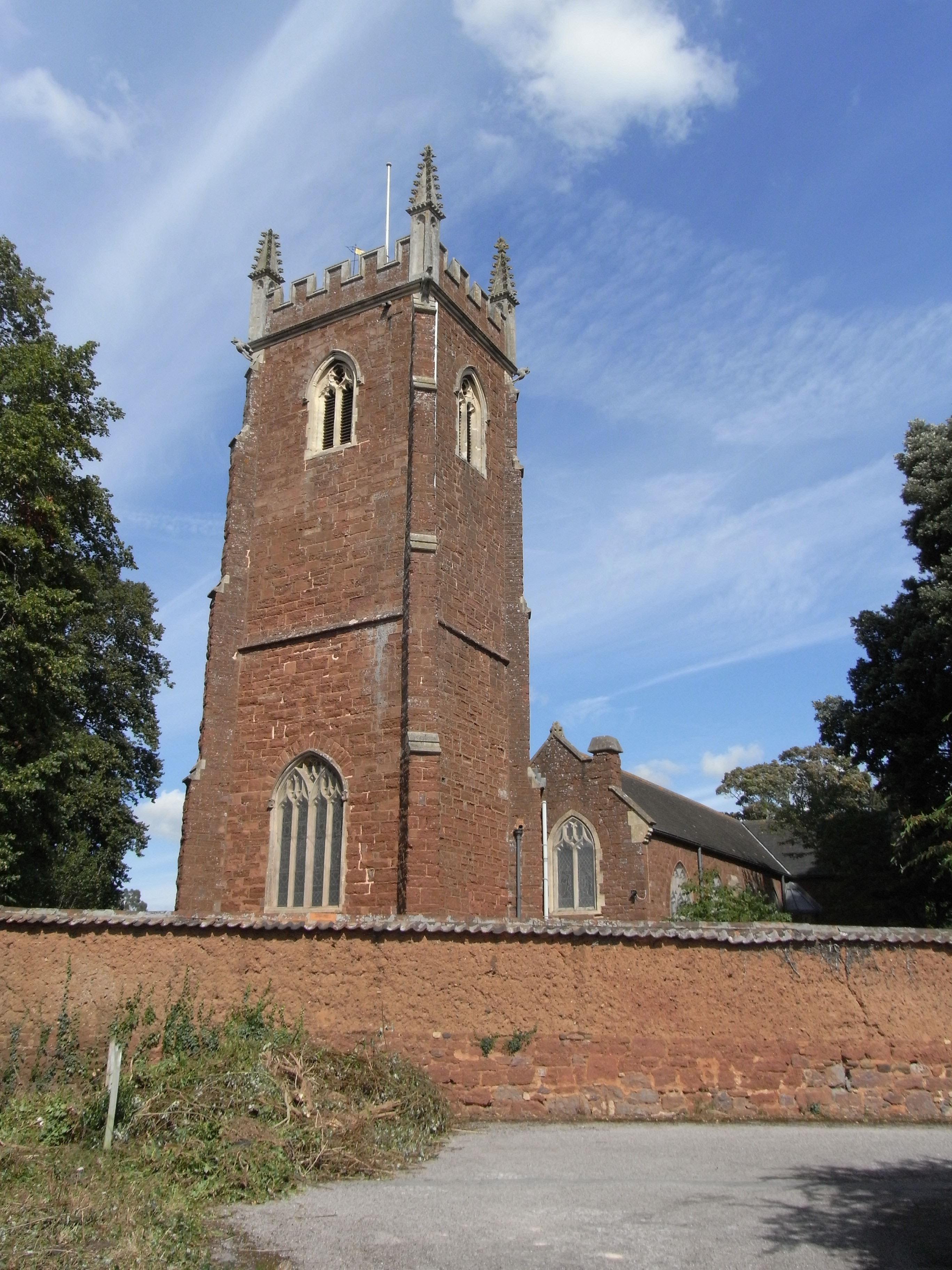 St Michael's parish church, Alphington, Devon, seen from the southwest